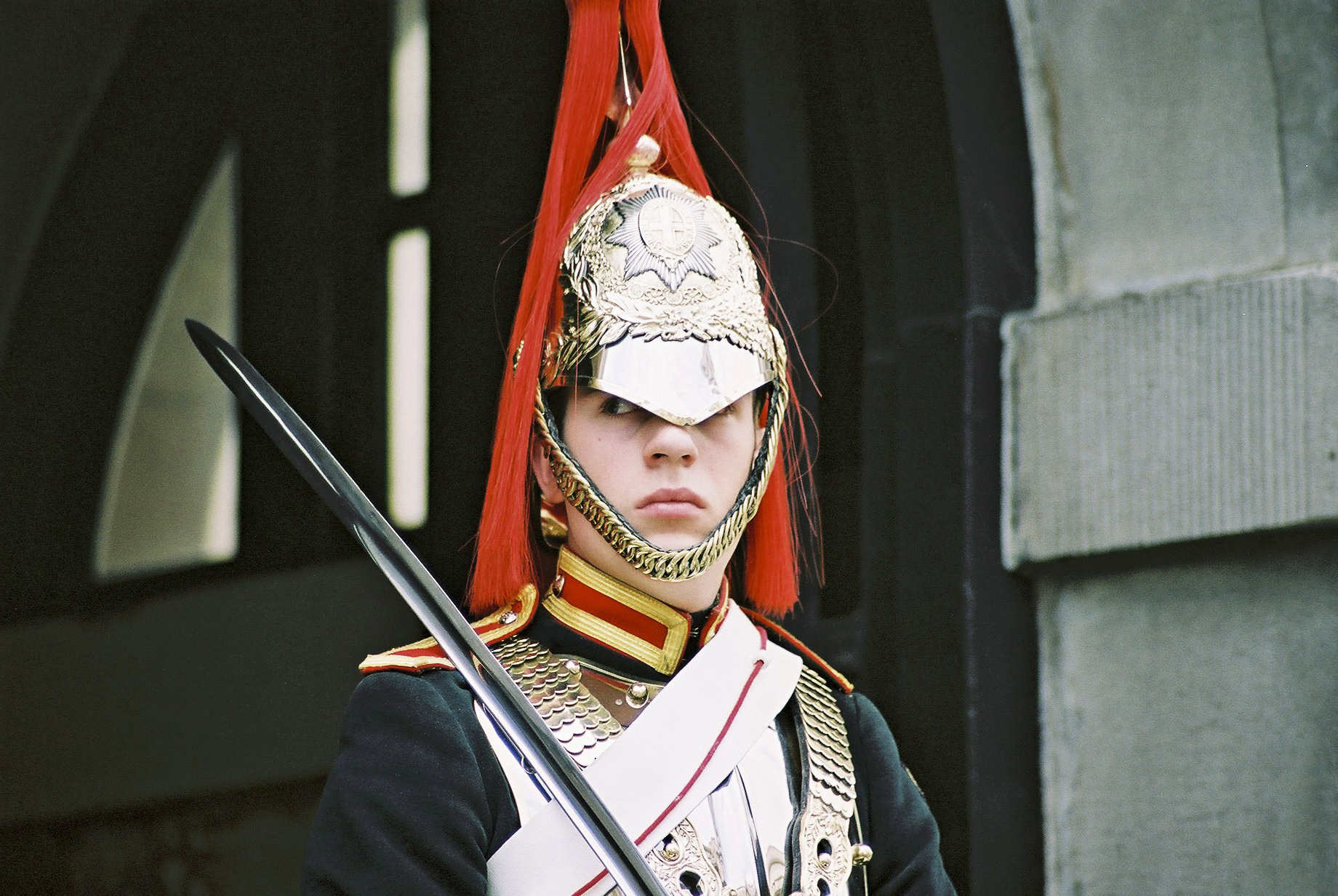 Trooper of the Blues mounted on horseback